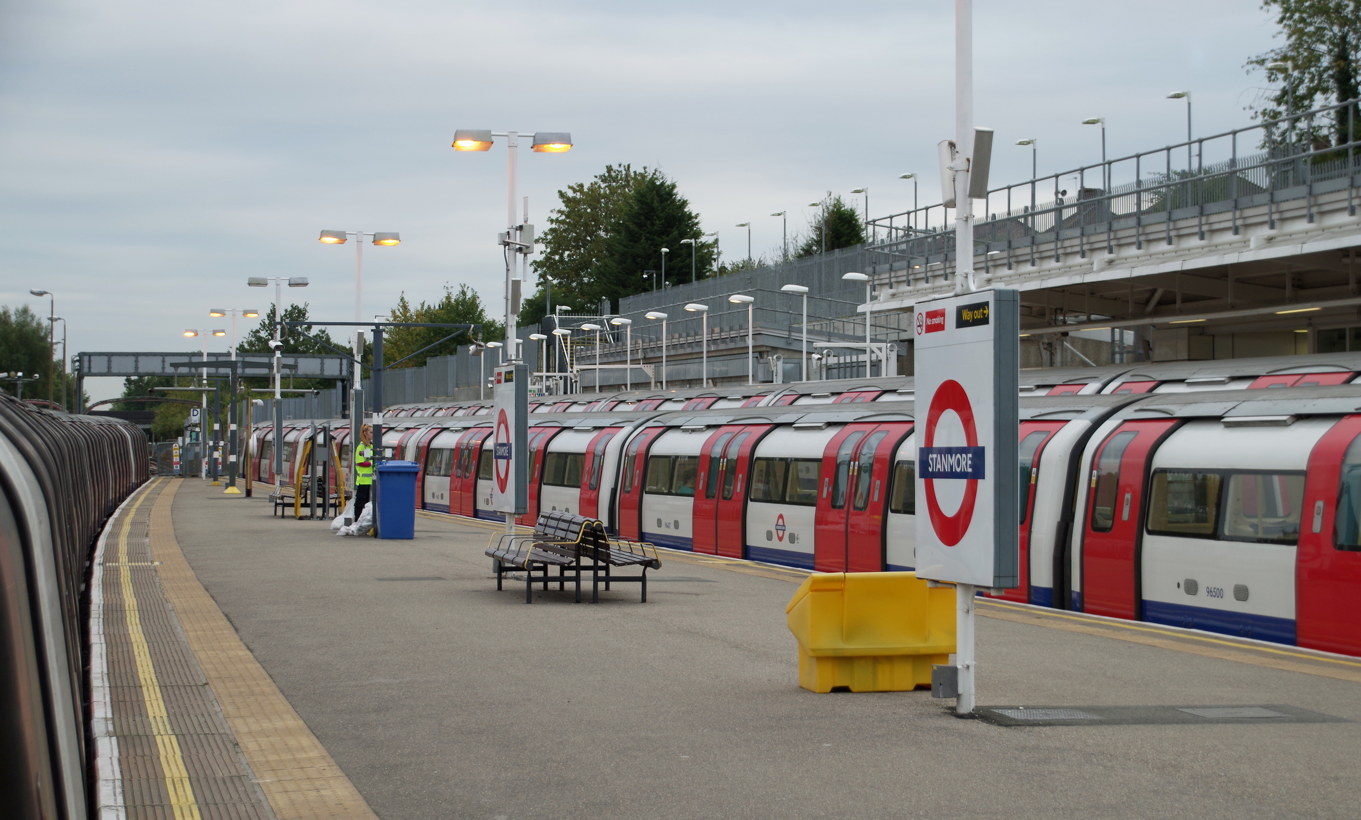 Jubilee Line 1996 Stock trains stand at Stanmore tube station.